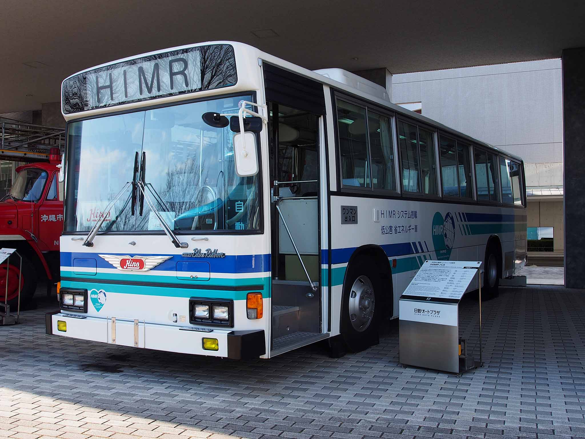 Hino Blue Ribbon HIMR, displayed at Hino Auto Plaza. Model: U-HU2MMA